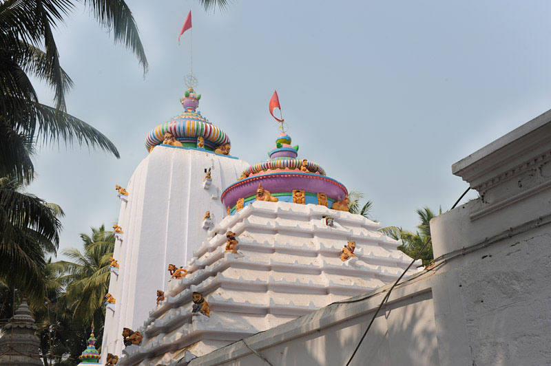 Image of Biraja Temple which is one of the ancient Hindu temples located in the Jajpur district of Orissa. This temple was built in 13th century.